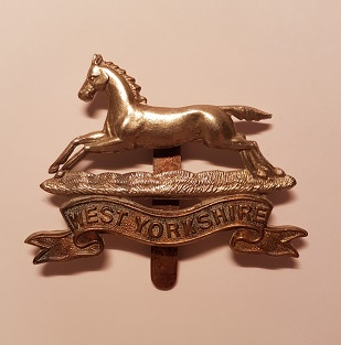 Photo of West Yorkshire Regiment Cap Badge from personal collection